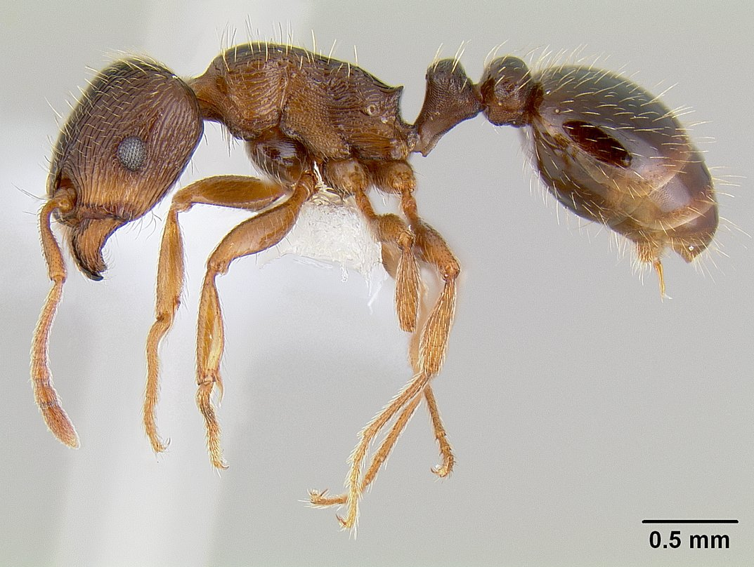 Profile view of ant Tetramorium caespitum specimen casent0106026.